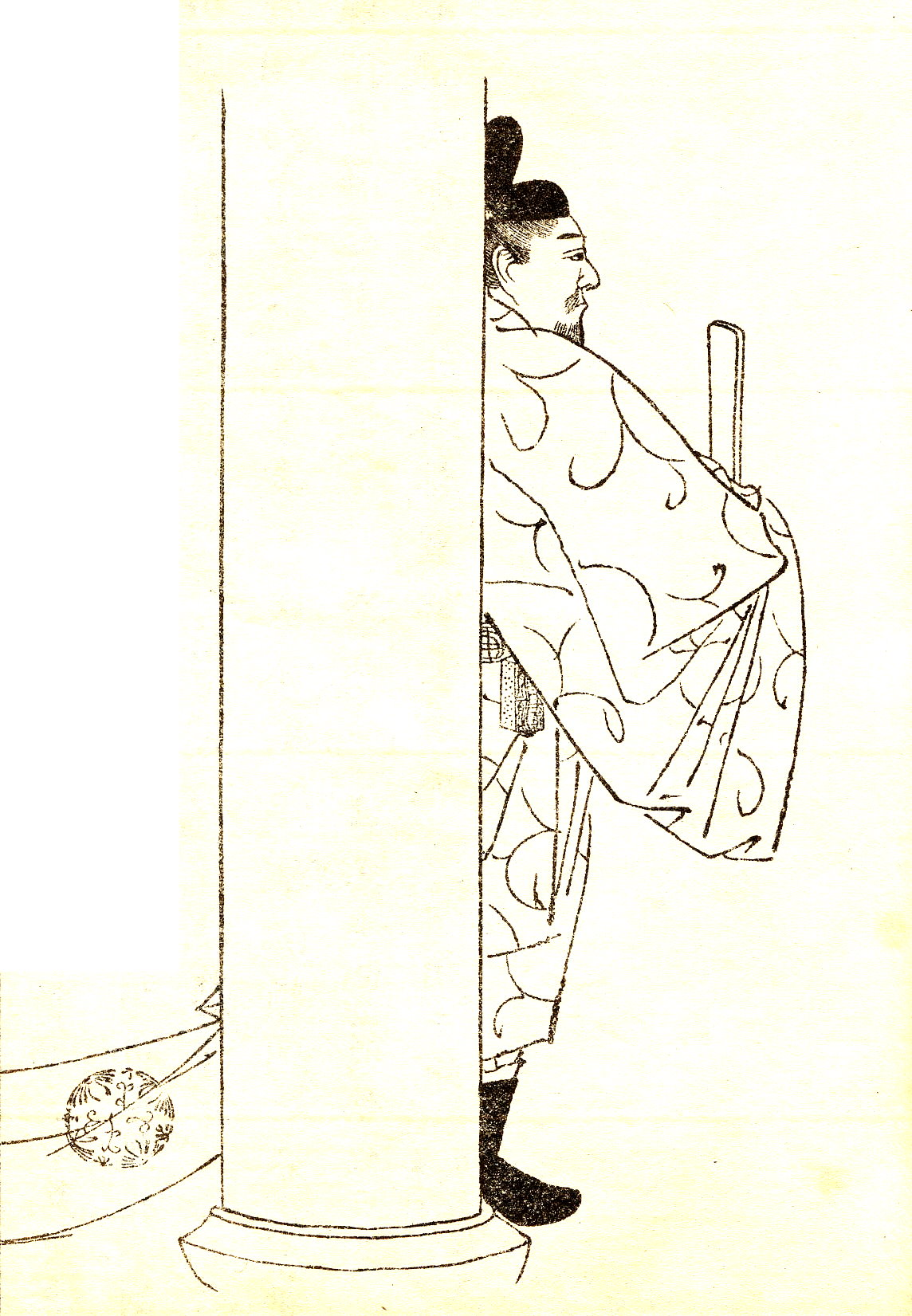 Fujiwara no Tadahira (藤原 忠平) was a Japanese noble who served as regent under Emperor Suzaku who ruled from 930 to 946. This picture was drawn by Kikuchi Yosai（菊池容斎） who was a painter in Japan.